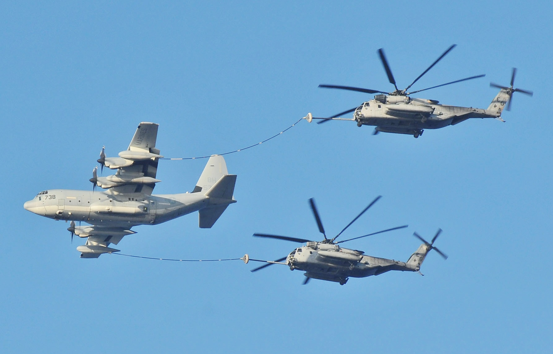 110610-N-KA046-002 MEDITERRANEAN SEA (June 10, 2011) Two MH-53E Super Stallion helicopters assigned to Marine Medium Tiltrotor Squadron (VMM) 263 (Reinforced), 22nd Marine Expeditionary Unit (22nd MEU), perform an aerial refueling training exercise with a KC-130J Hercules tanker aircraft above the multipurpose amphibious assault ship USS Bataan (LHD 5). Bataan is the command ship of the Bataan Amphibious Ready Group, conducting maritime security operations and theater security cooperation efforts in the U.S. 6th Fleet area of responsibility. (U.S. Navy photo by Mass Communication Specialist 3rd Class James Turner/Released)